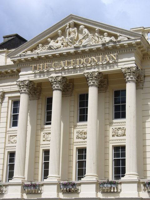 The Caledonian Extravagant Corinthian-columned former bank on Inverness High Street. Today, the ground floor houses a pub.